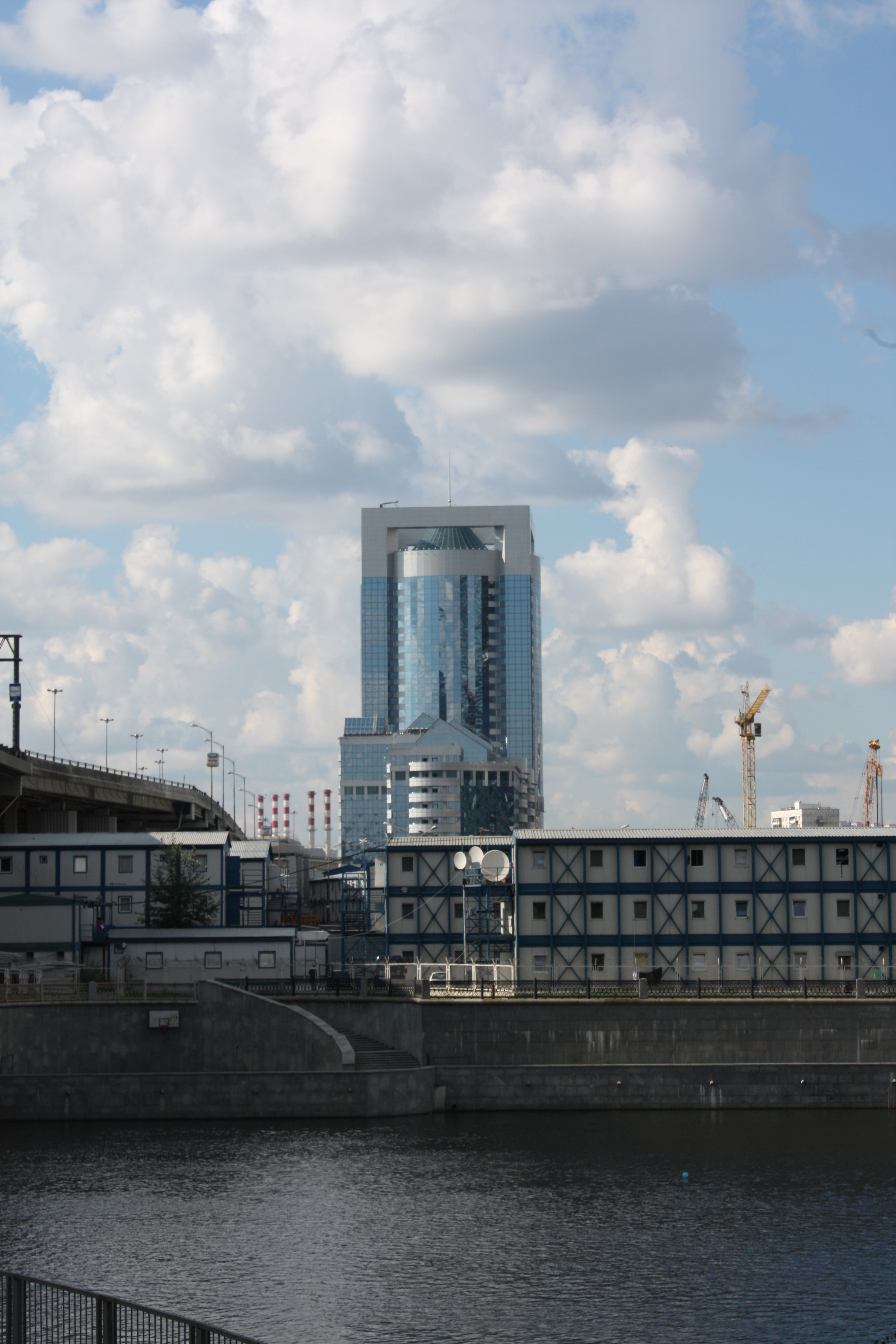 North Tower MIFC